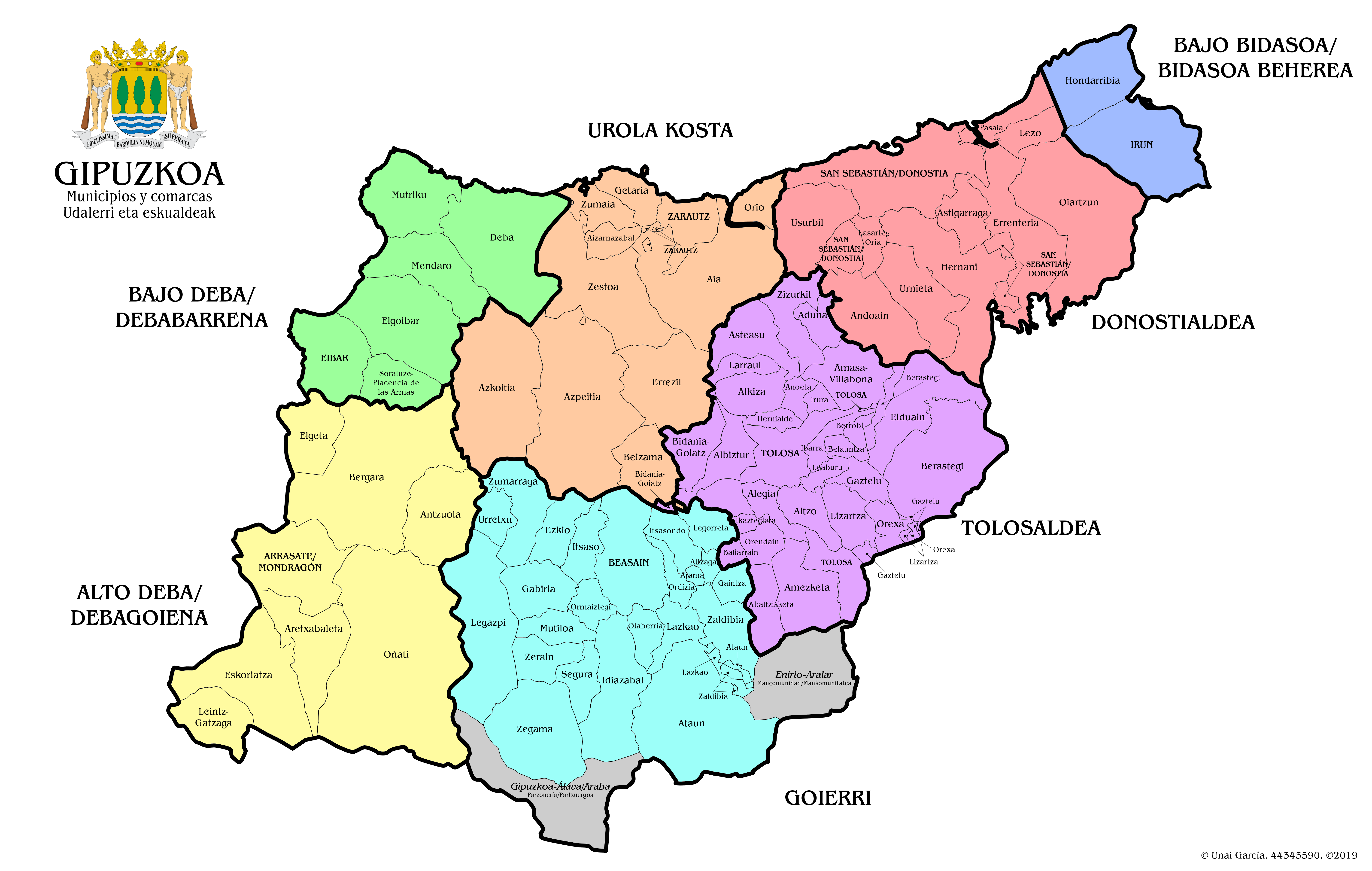 Political map of Gipuzkoa (Updated: 2019)